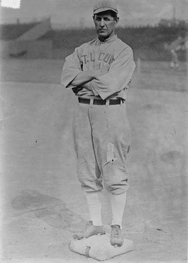 Fielder Allison Jones (1871 – 1934), American baseball player and manager